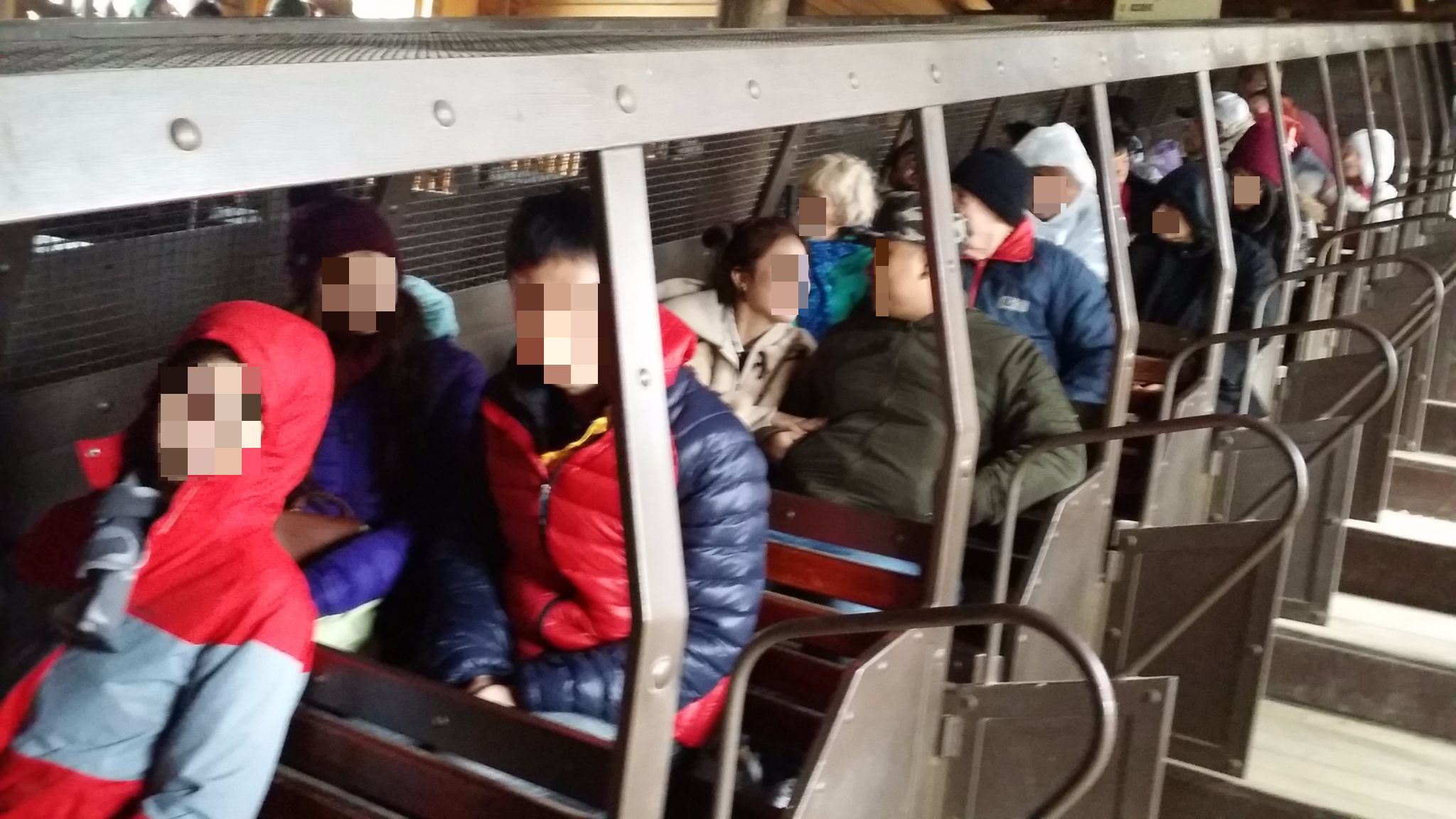 The train in Ballarat, sovereign hill. It takes you underground.